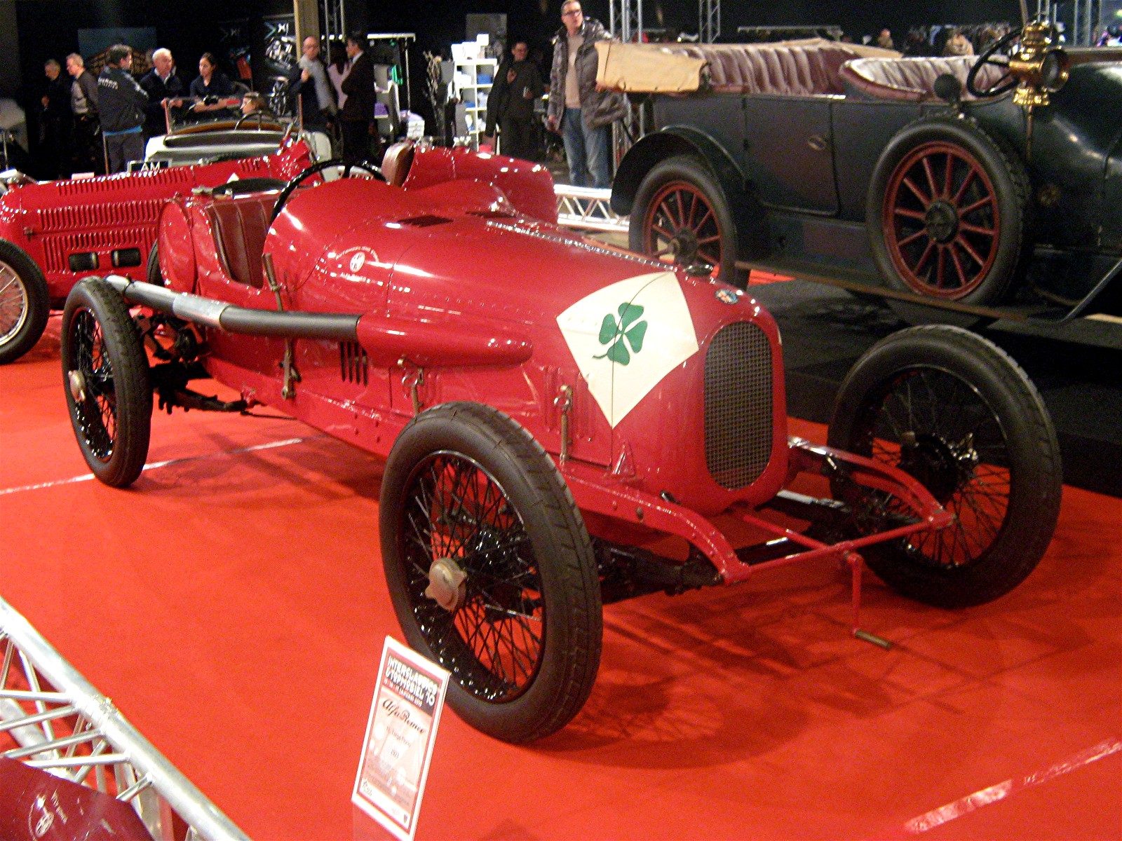 InterClassics & TopMobiel at the MECC in Maastricht